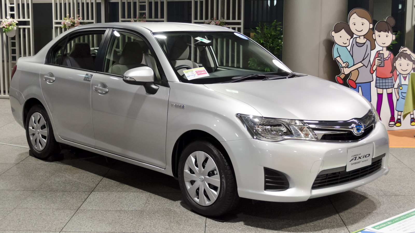 11th generation Toyota Corolla Axio Hybrid